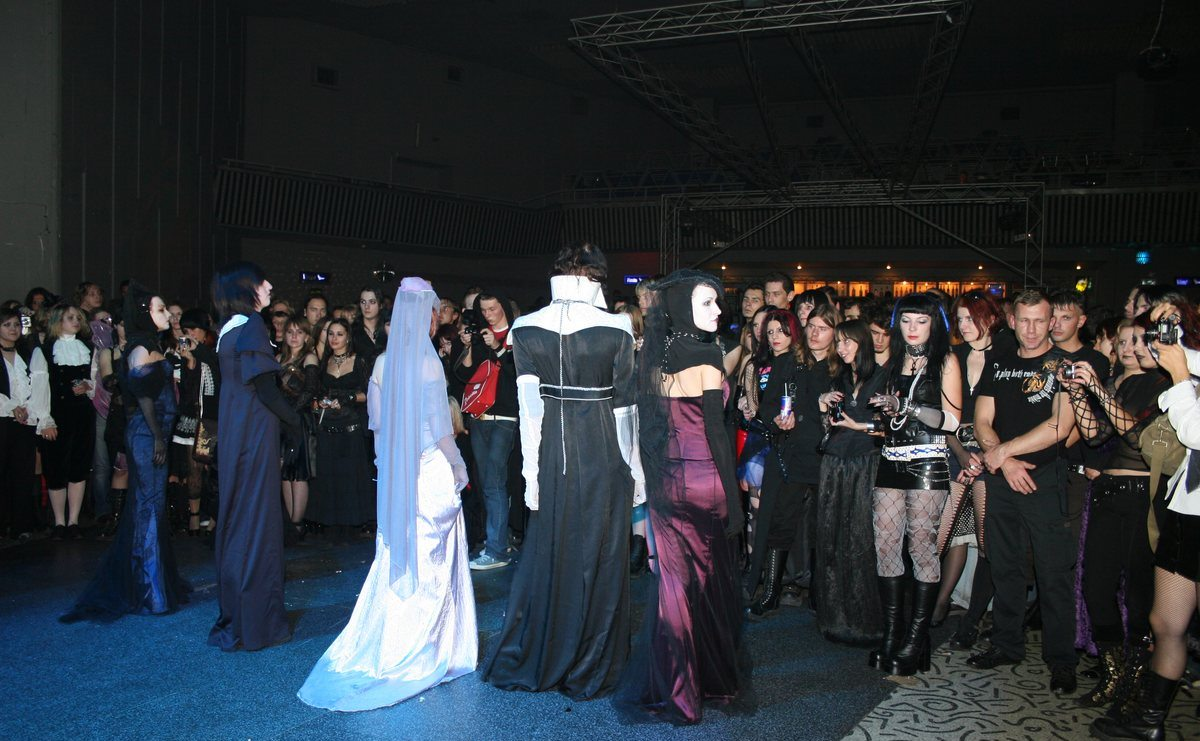 Festival "Deti Nochi: Chorna Rada", visitors